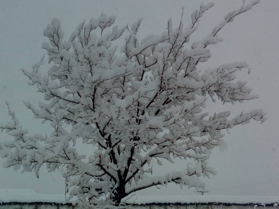 snow in winter season